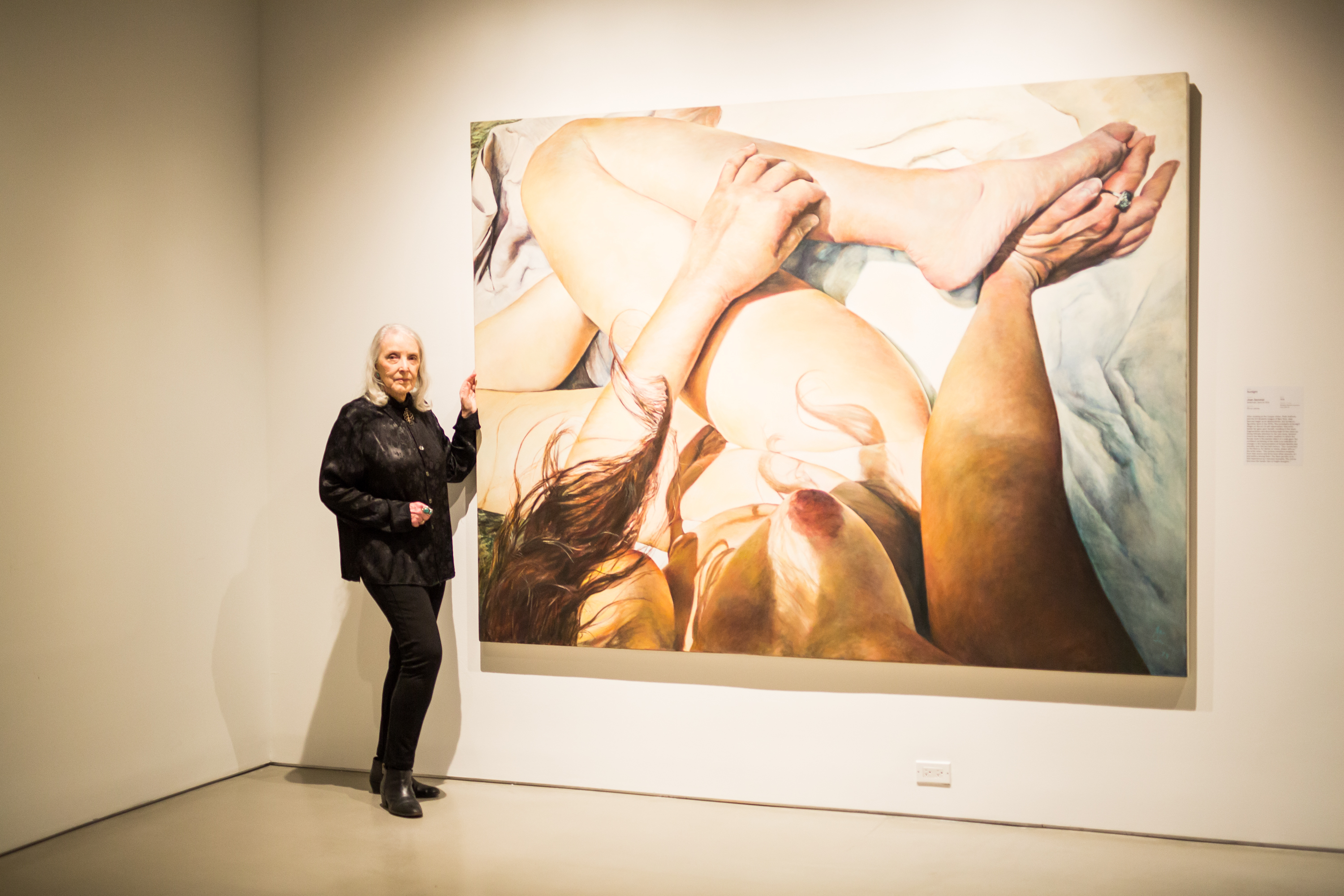 The Jewish Museum's first Wikipedia Edit-a-thon co-presented with Art + Feminism featured a Wikipedia training and artist talks with Jewish Museum collection artists Joan Semmel and Arlene Shechet.